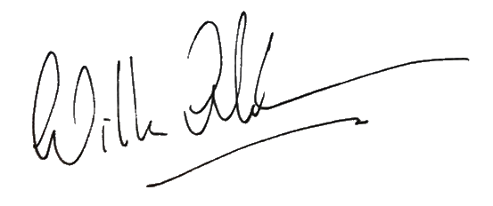 Signature of Dutch king Willem-Alexander.